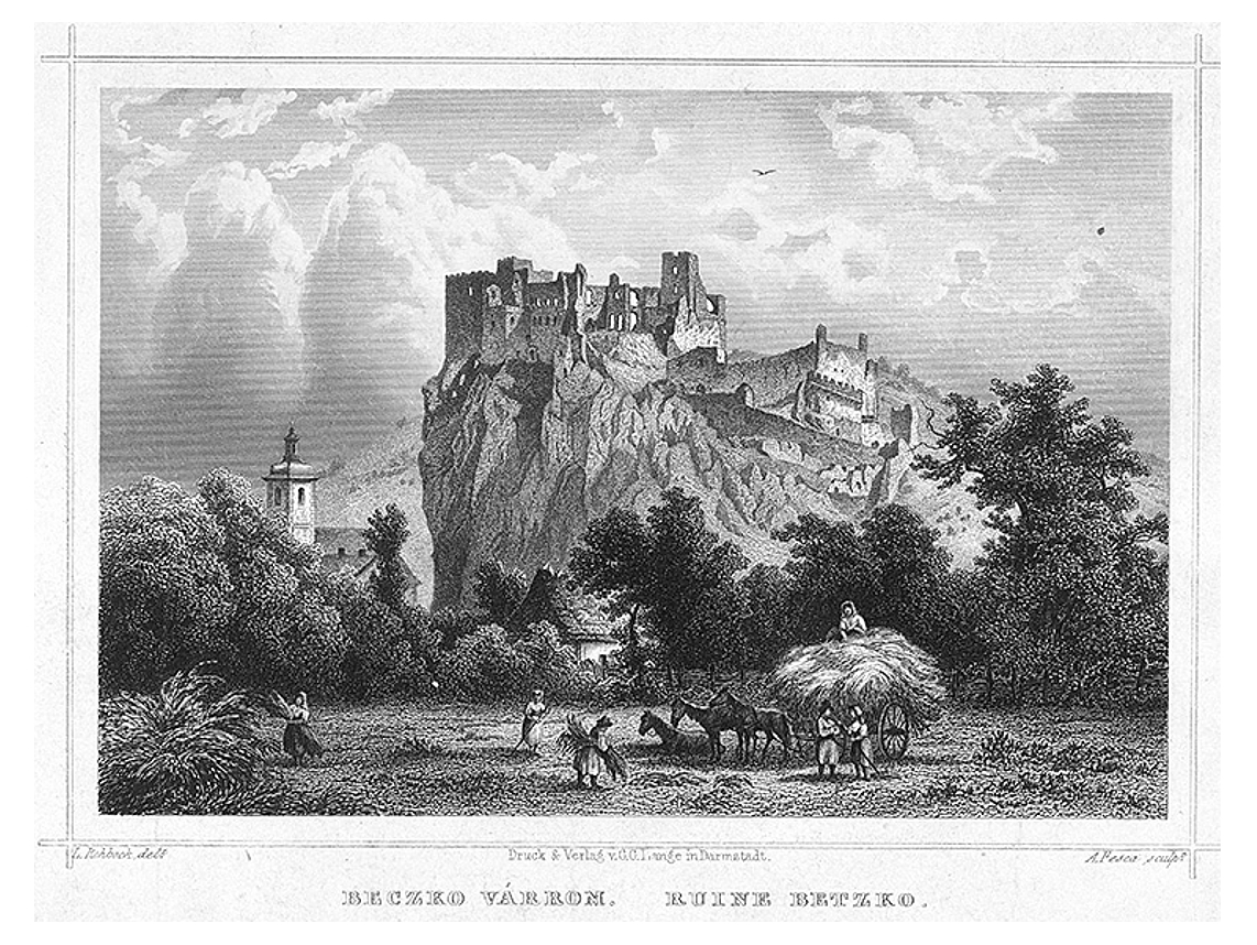 Ludwig Rohbock: Ruins of Beckov Castle